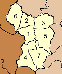 Map of Thung Yai district, Nakhon Si Thammarat province, Thailand, with the communes (tambon) numbered. Tha Yang (ท่ายาง) Thung Sang (ทุ่งสัง) Thung Yai (ทุ่งใหญ่) Ku Hae Ra (กุแหระ) Prik (ปริก) Bang Rup (บางรูป) Krung Yan (กรุงหยัน)